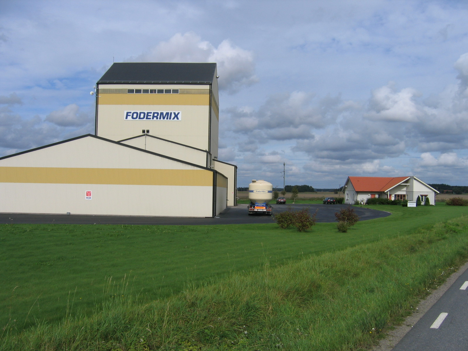 The main Fodermix building